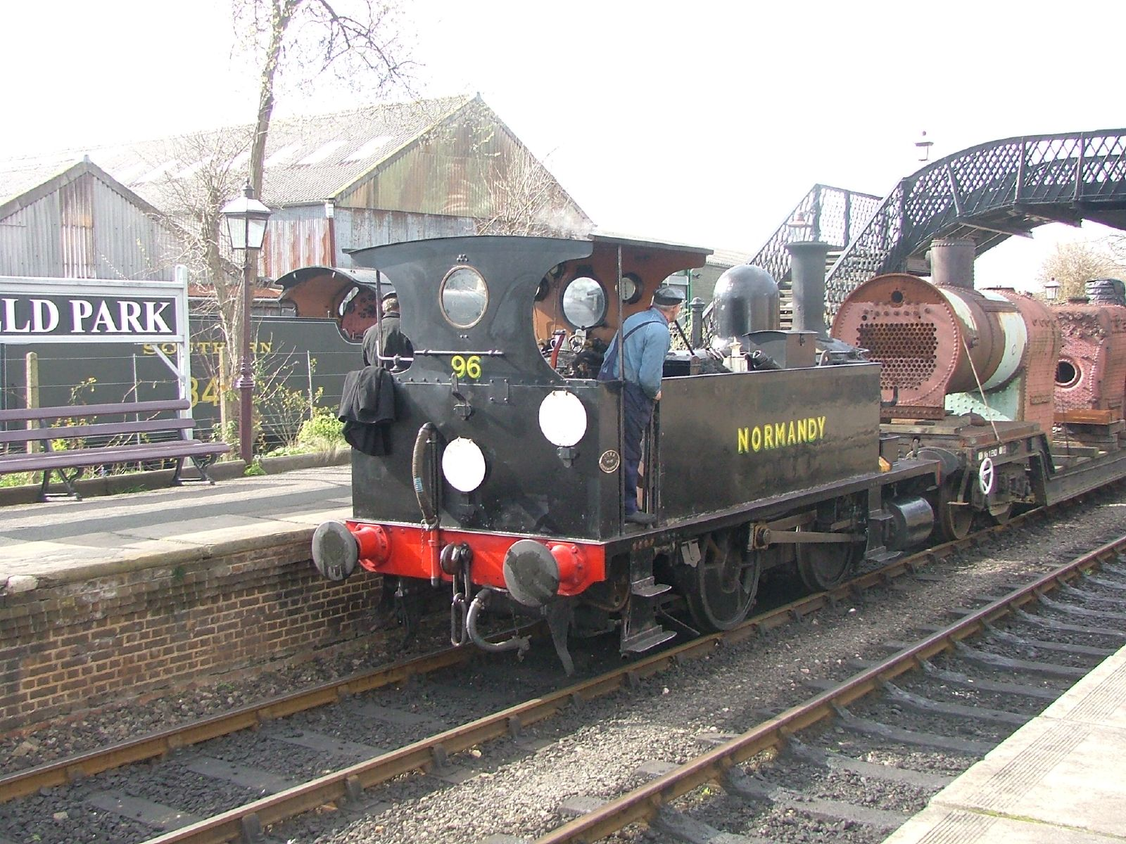 Normandy on a boiler train!